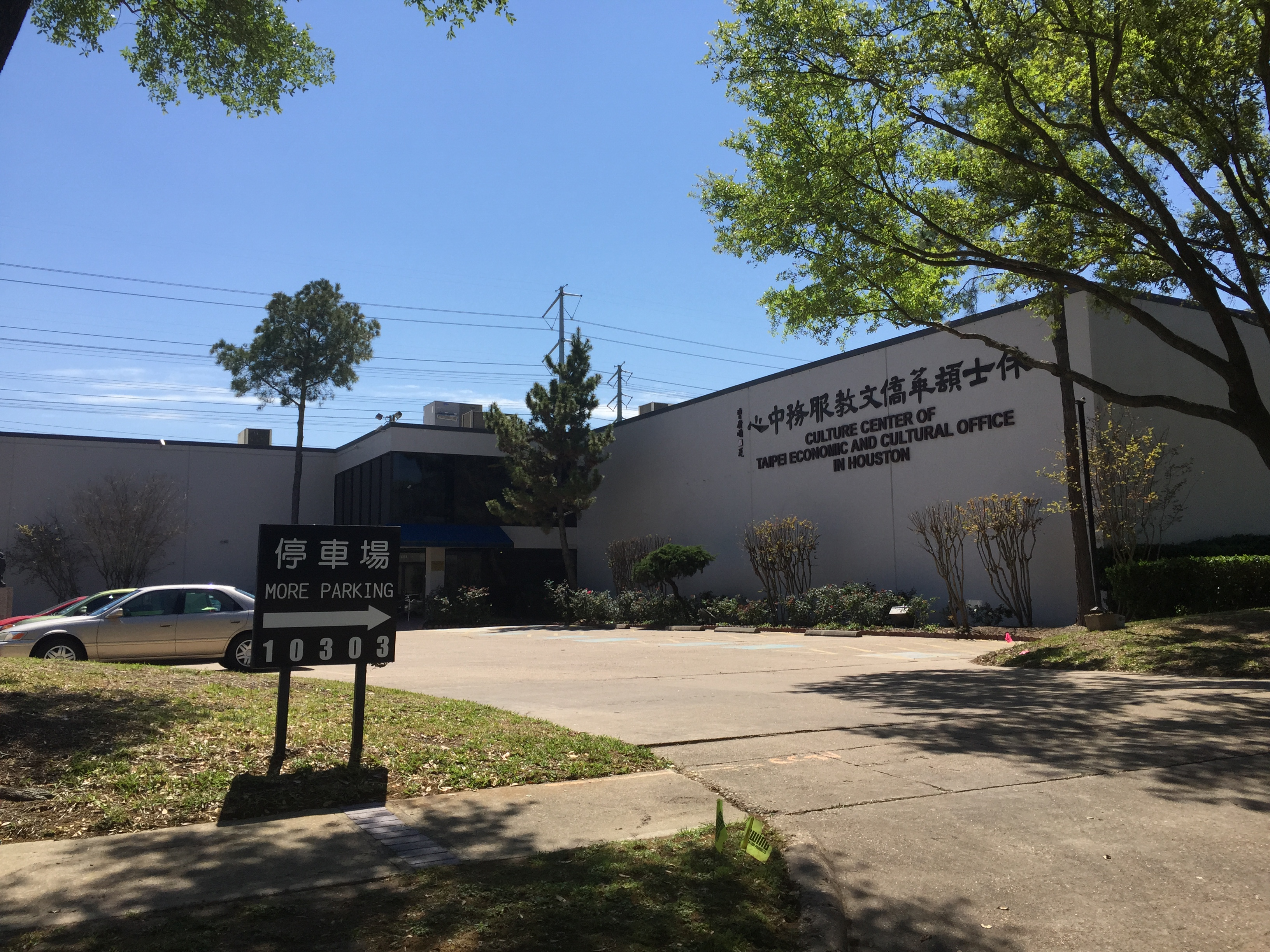 Culture Center of Taipei Economic and Cultural Office in Houston